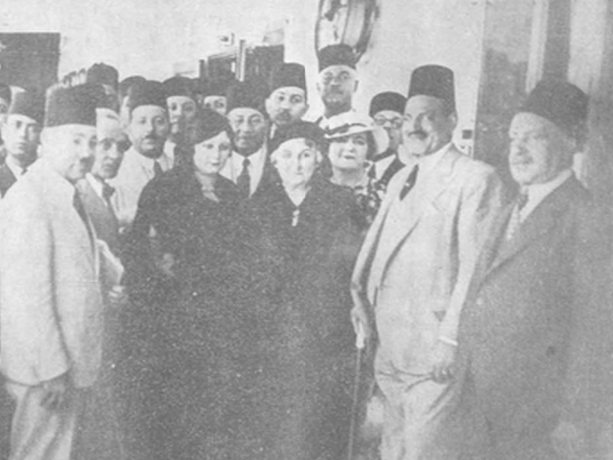 Talaat Harb with: Elnahas Basha and Safeya Zaghloul